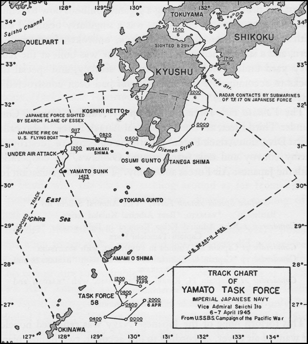 Operation Ten-Go: Track-chart of Japanese "special attack force" composed of battleship Yamato, light cruiser Yahagi and eight destroyers during the "Last Sortie" to Okinawa in April 1945. Based on interrogation of japanese participants after the surrender of Japan.